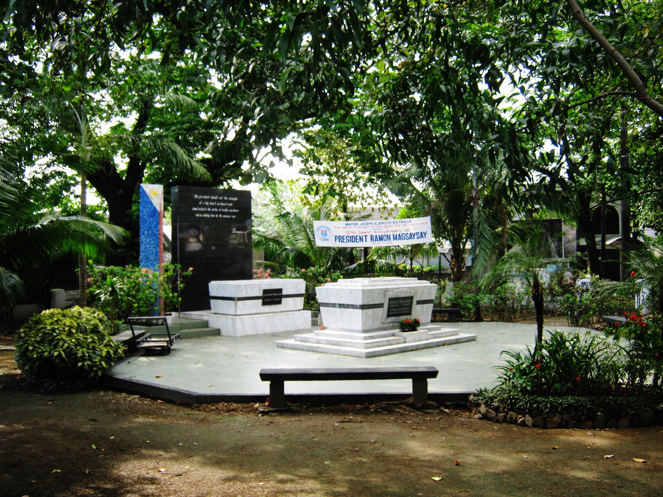 Manila North Cemetery Sta Cruz, Manila